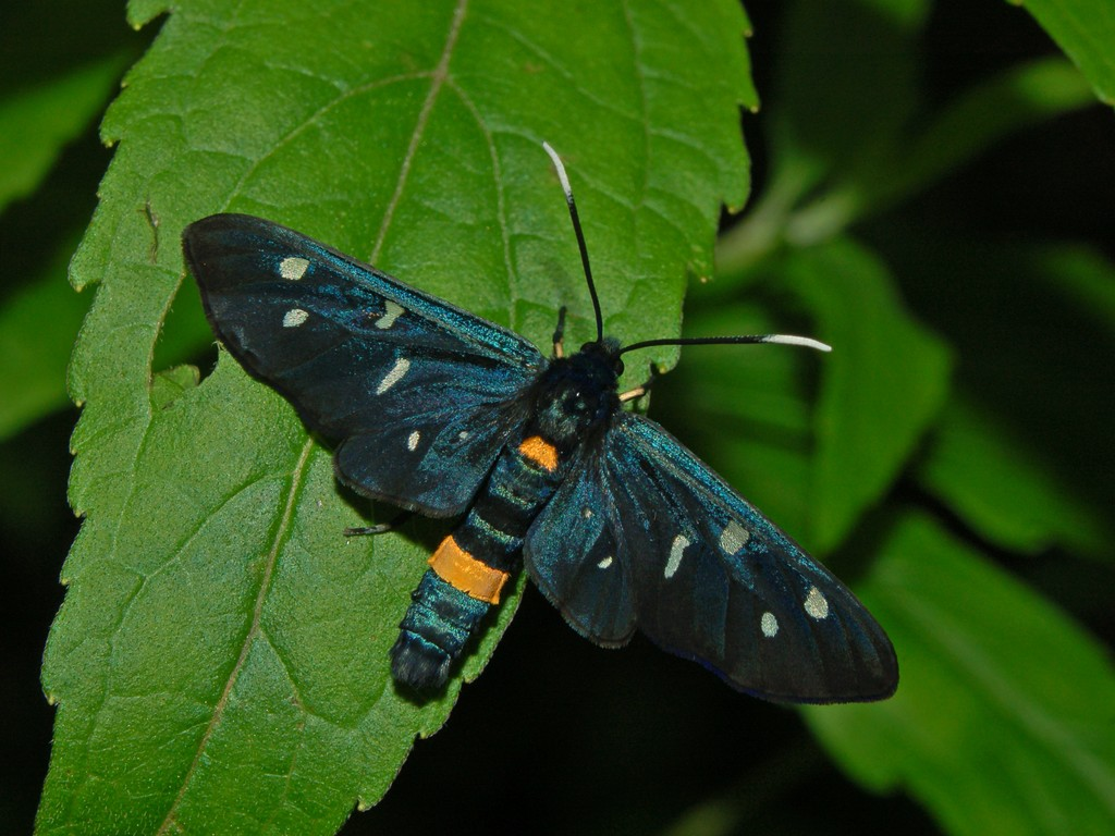 Amata phegea